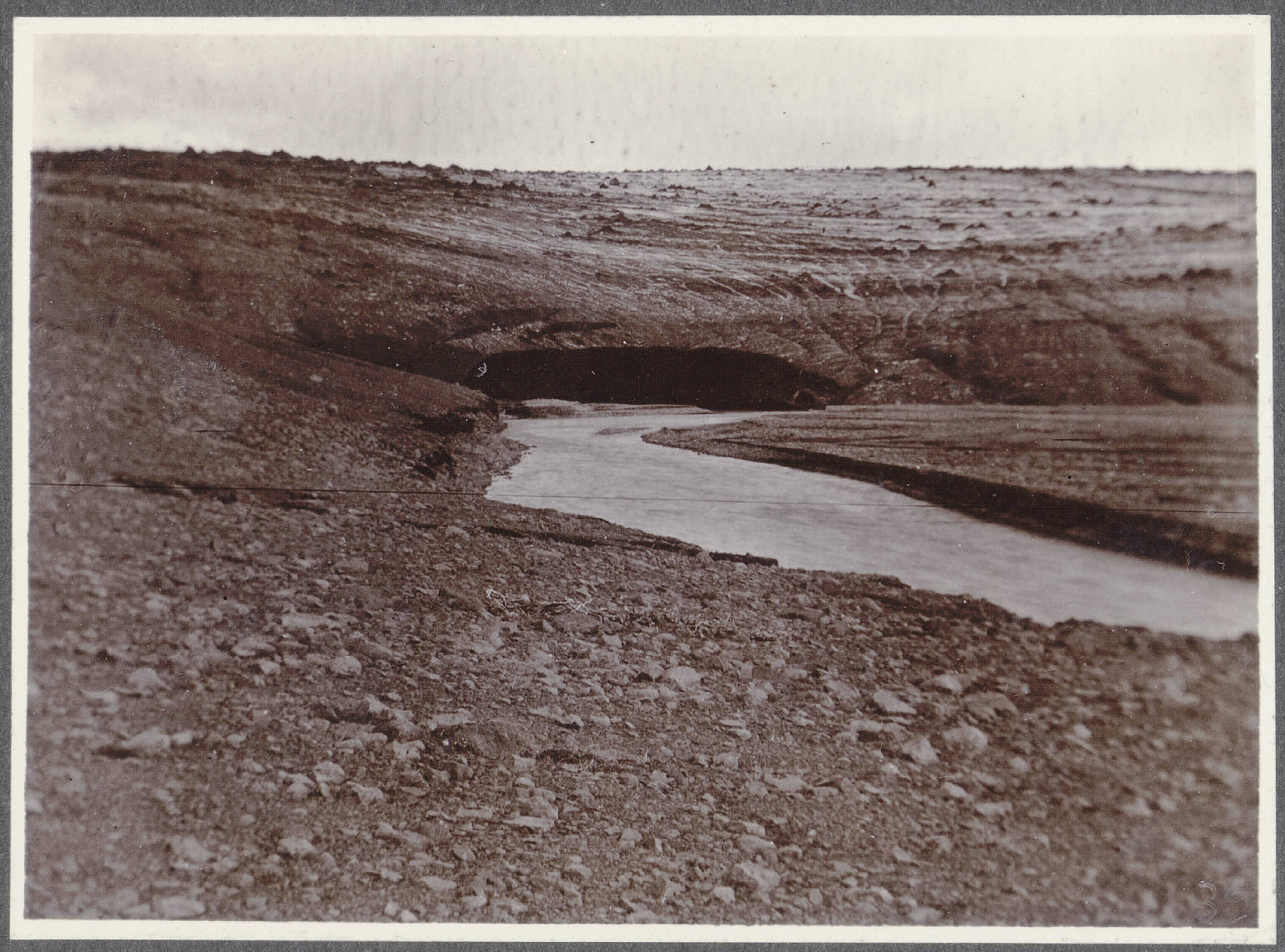 Collection: Icelandic and Faroese Photographs of Frederick W.W. Howell, Cornell University Library Title: Ice cave in Brúarjökull. Source of Kverká. Date: ca. 1900 Place: Brúarjökull (Iceland) Medium: collodion print Repository: Fiske Icelandic Collection, Rare & Manuscript Collections, Cornell University Library Accession: 1923.4.34 URL: Persistent URI: There are no known U.S. copyright restrictions on this image. The digital file is owned by the Cornell University Library which is making it freely available with the request that, when possible, the Library be credited as its source. We had some help with the geocoding from Web Services by Yahoo!